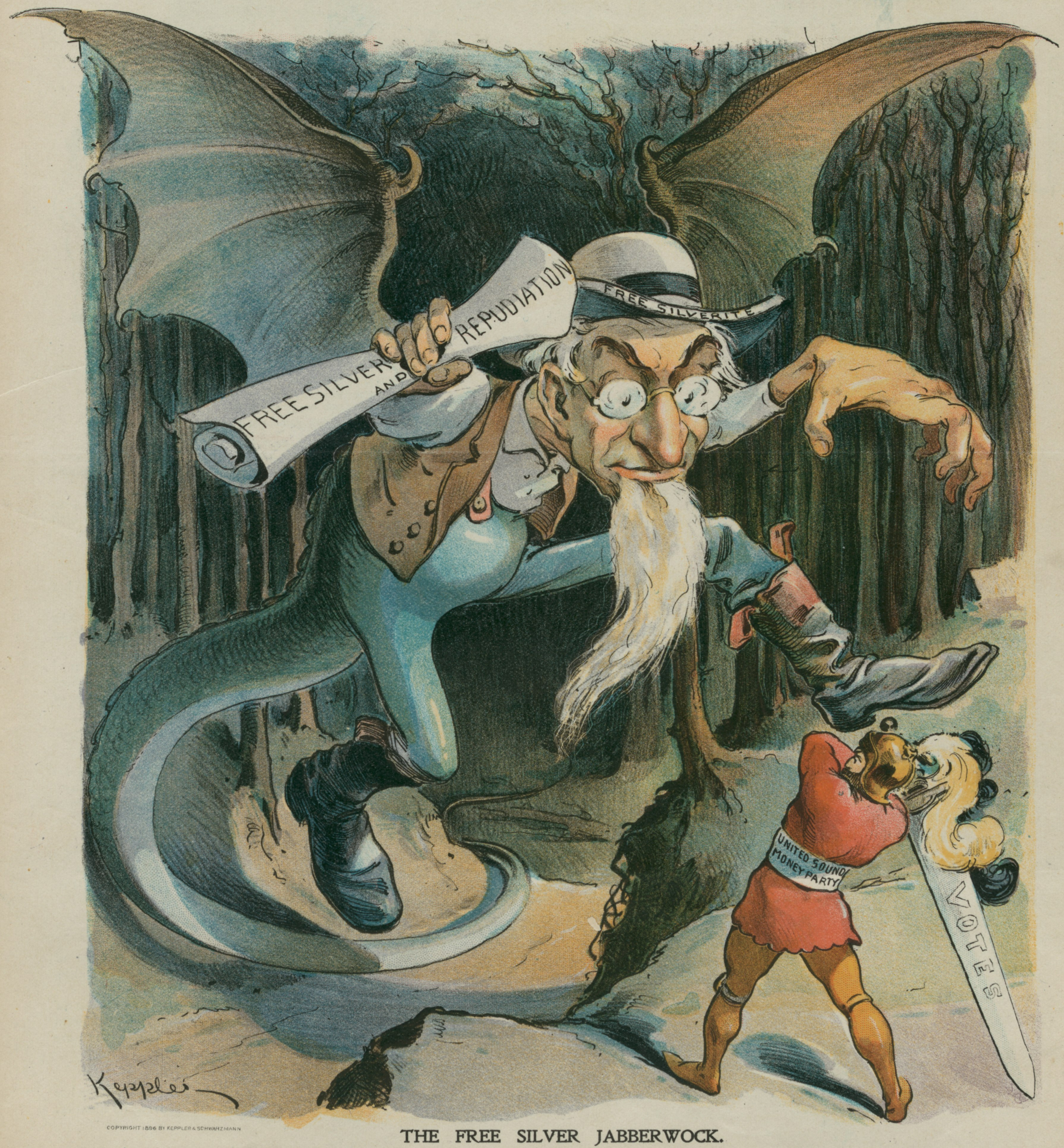 Title: The free silver jabberwock / Keppler. Abstract/medium: 1 print : chromolithograph.